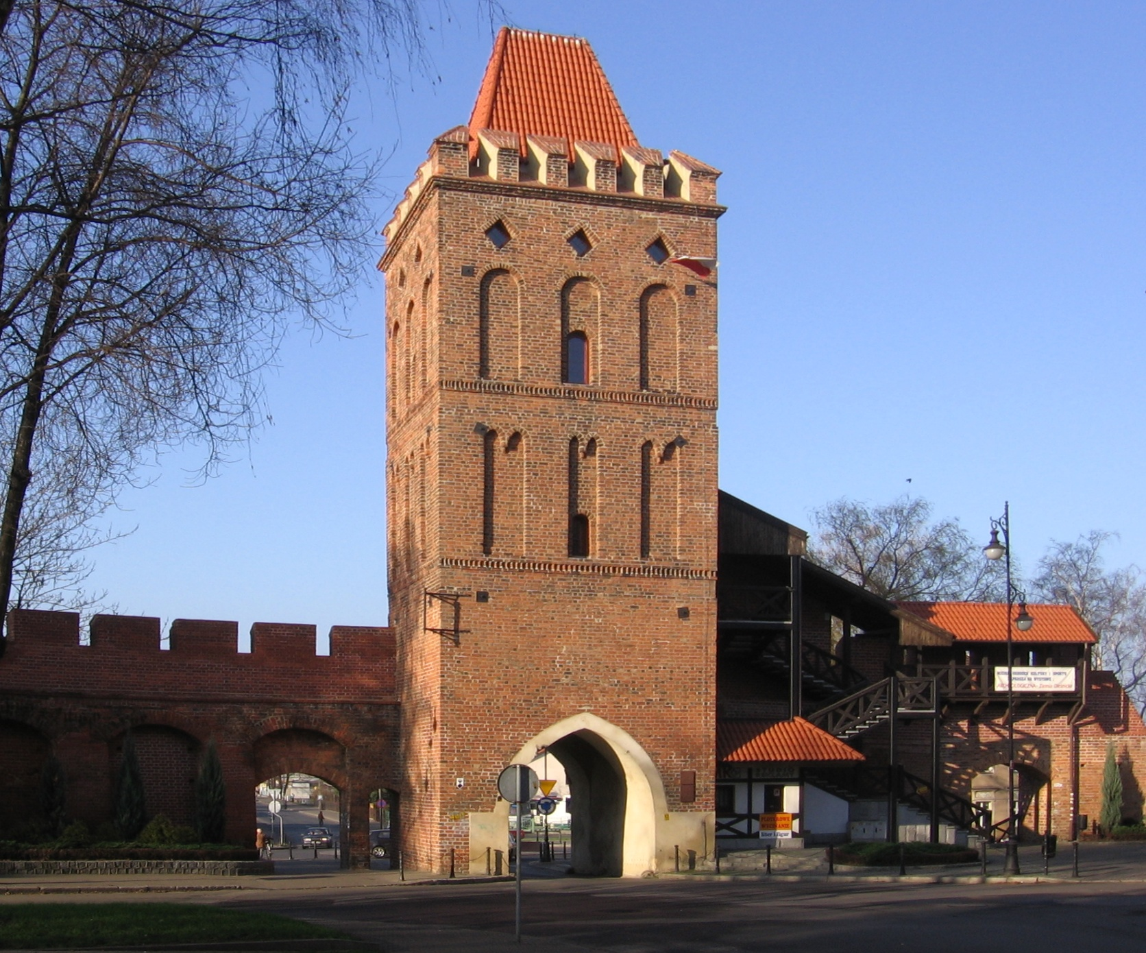 Oleśnica: the Gate to Wrocław, view from the town side